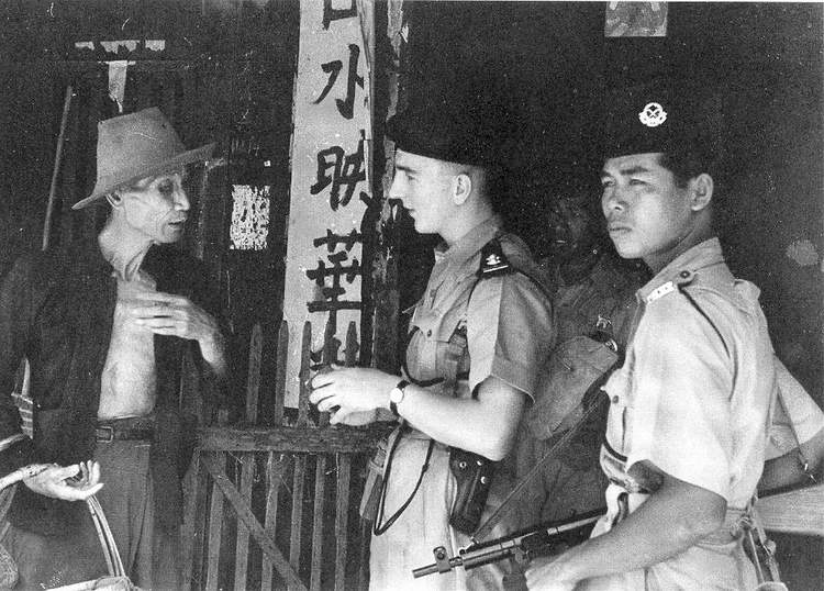 23rd April 1949: Police talking to an old Malayan who may have information about the communist bandits in the area.